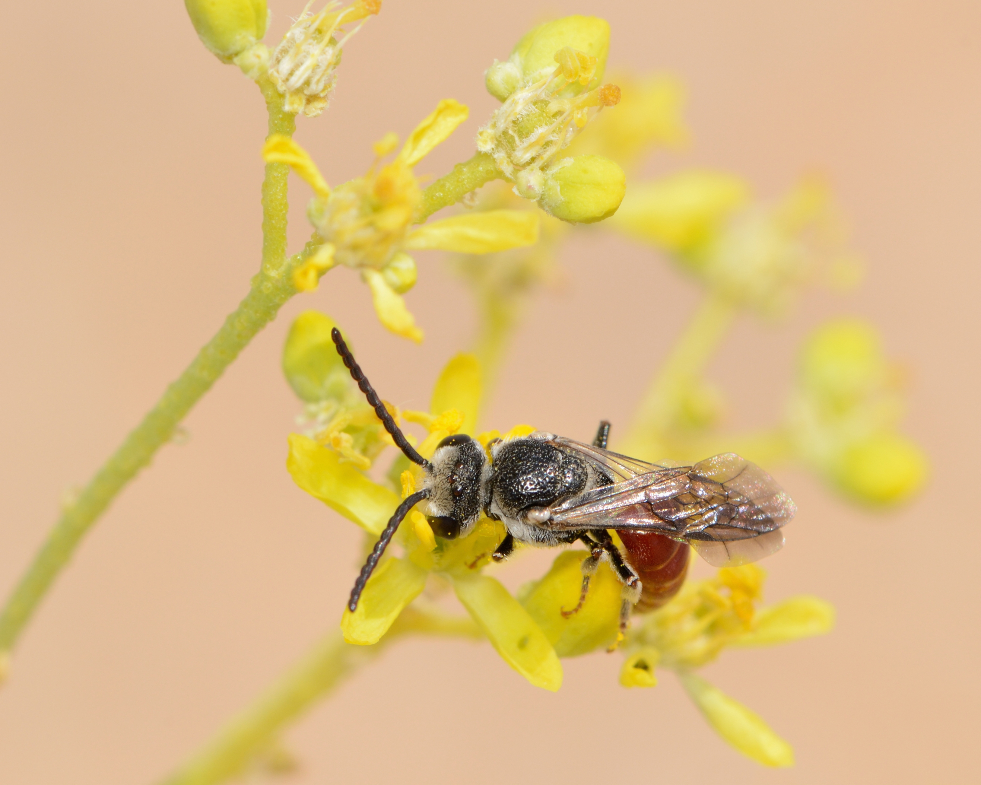 Sphecodes olivieri Lepeletier 1825, male foraging on Haplophyllum tuberculatum, Nahal Ketzev, the Negev, Israel, May 4, 2013. Det. Maximilian Schwarz 2014.